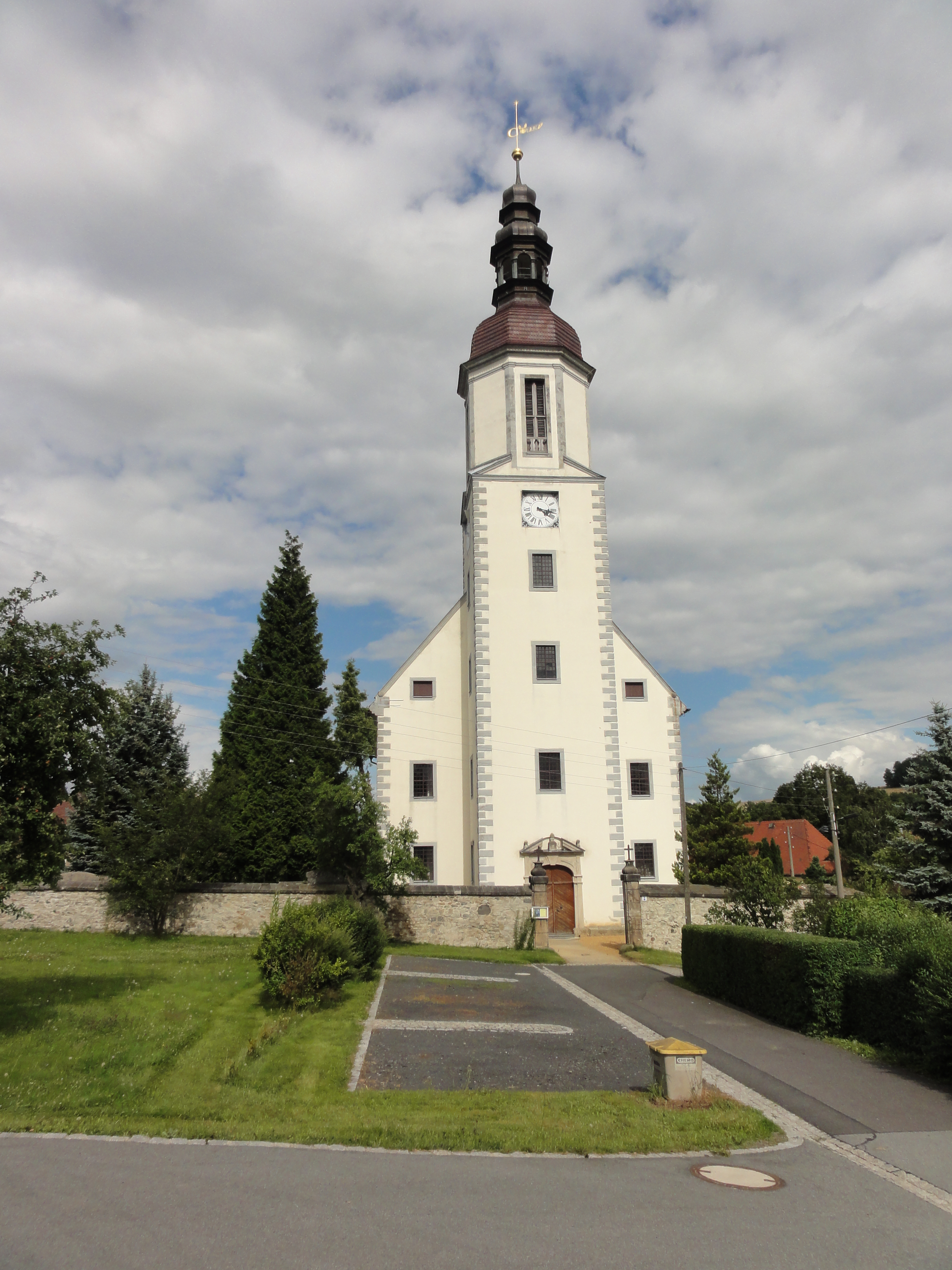 Church in Hainewalde, Upper Lusatia